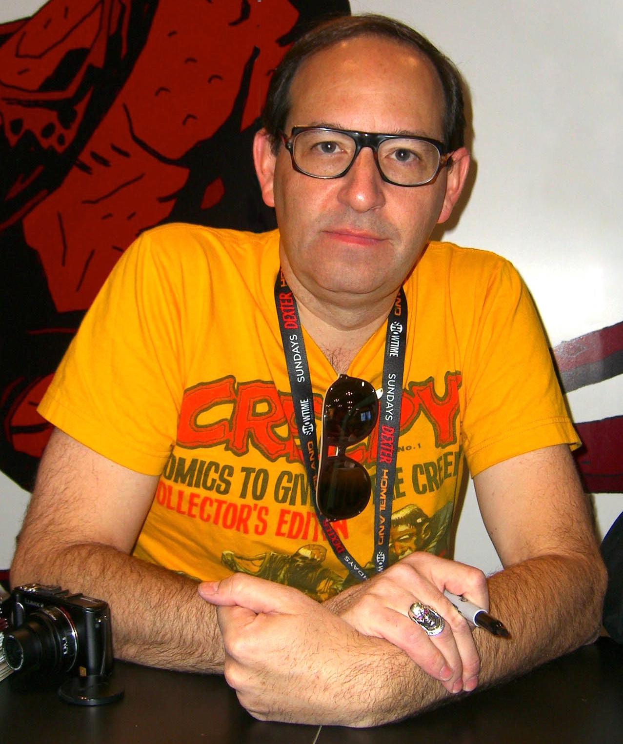 Comics creator Dan Braun signing copies of the relaunched Creepy and Eerie during an October 16, 2011 appearance at the Dark Horse Comics booth at the New York Comic Con in Manhattan. This photo was created by Luigi Novi. It is not in the public domain, and use of this file outside of the licensing terms is a copyright violation.